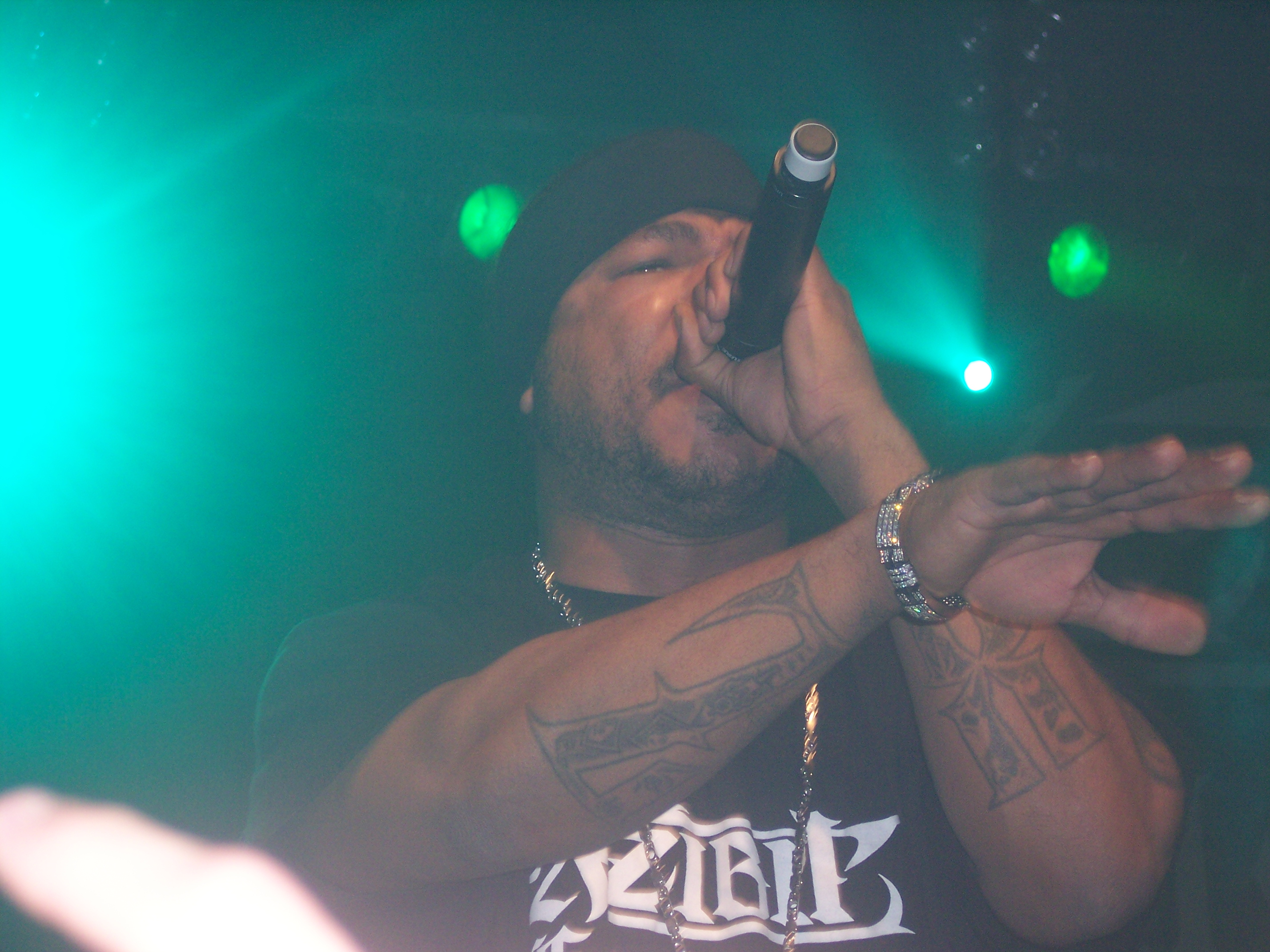 Xzibit performing in Adelaide, Australia, in 2007.